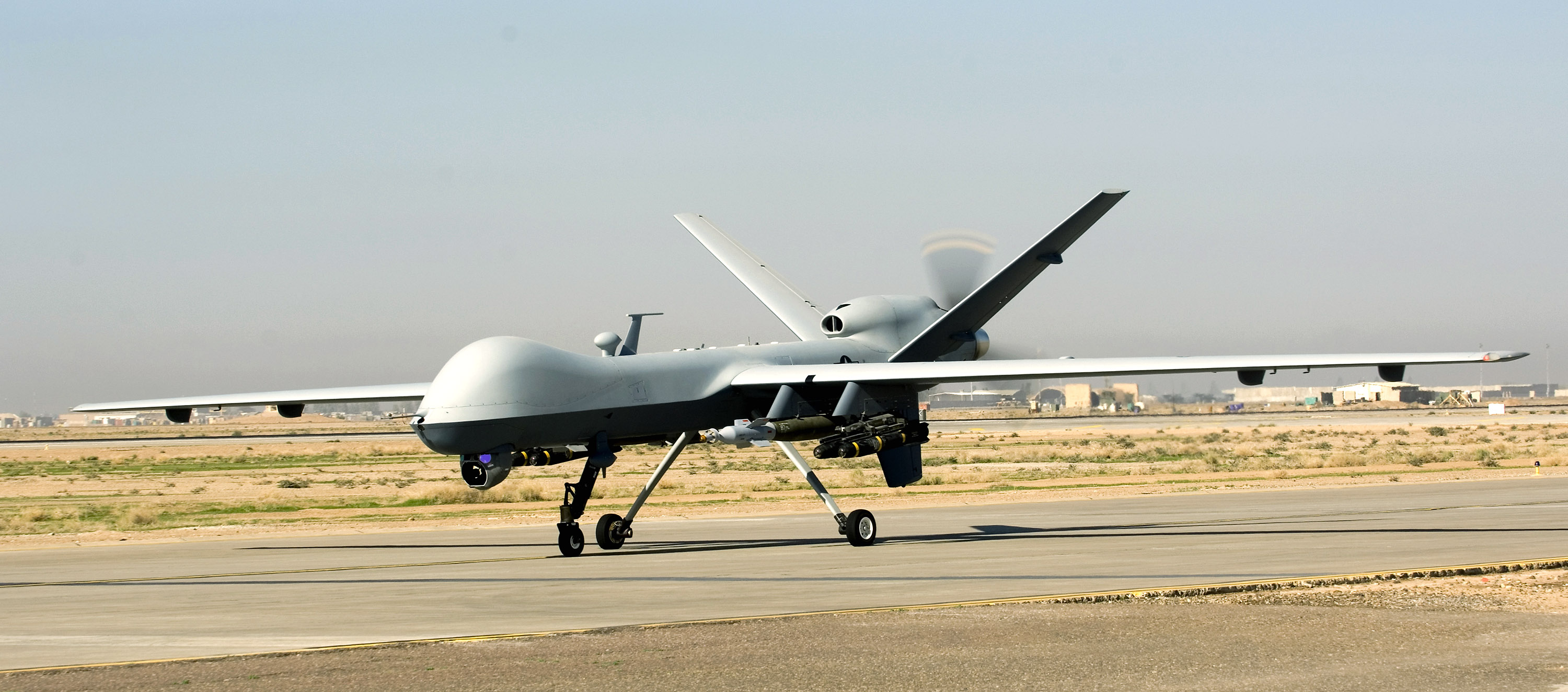 An MQ-9 Reaper unmanned aircraft taxies after landing at Joint Base Balad, Iraq. Reapers are remotely piloted and can linger over battlefields, providing persistent strike capabilities to ground force commanders. This Reaper is deployed to the 46th Expeditionary Reconnaissance and Attack Squadron from Creech Air Force Base, Nevada.